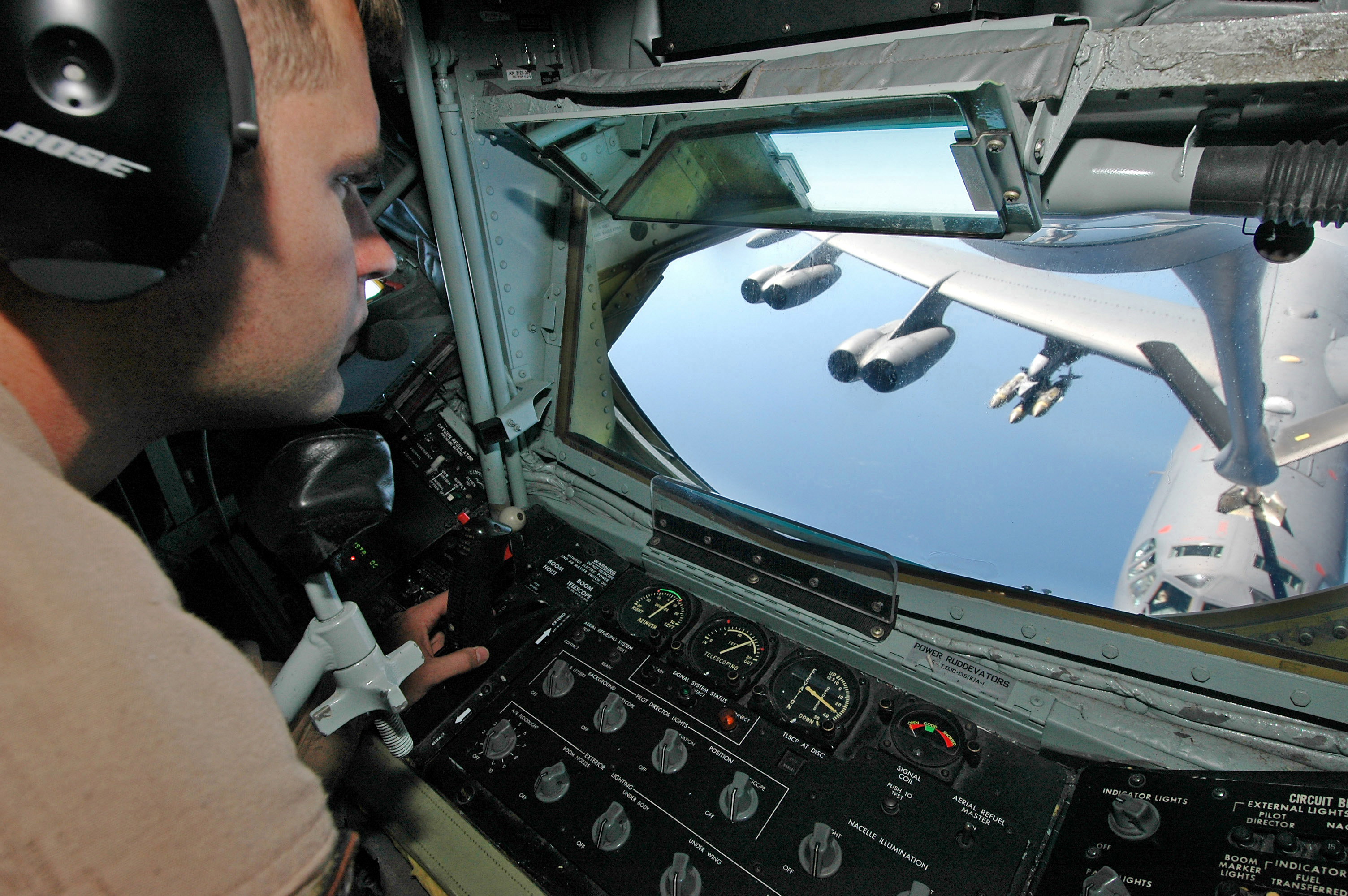 A boom operator of a KC-135 Stratotanker during an aerial refueling of a B-52 Stratofortress in Afghanistan. Original description: Airman 1st Class Ben Davis refuels a B-52 Stratofortress bomber from a KC-135 Stratotanker, Monday, March 13, 2006, during a mission in support of Operation Enduring Freedom. The B-52 provides close air support for ground troops in Afghanistan. Davis is a boom operator assigned to the 28th Expeditionary Air Refueling Squadron. (U.S. Air Force photo/Staff Sgt. Douglas Nicodemus)